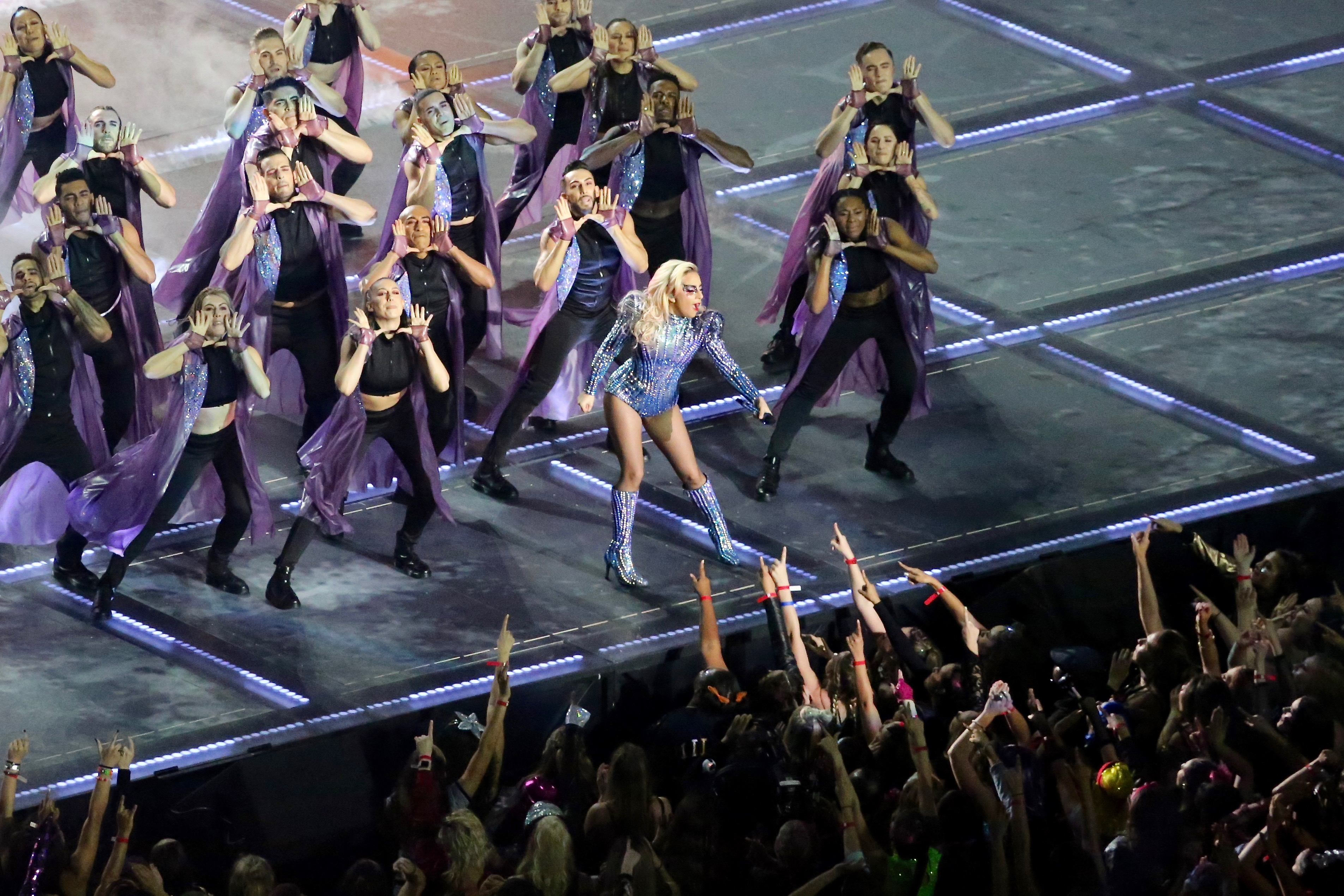 Lady Gaga performs "Born This Way" during the Super Bowl LI halftime show.